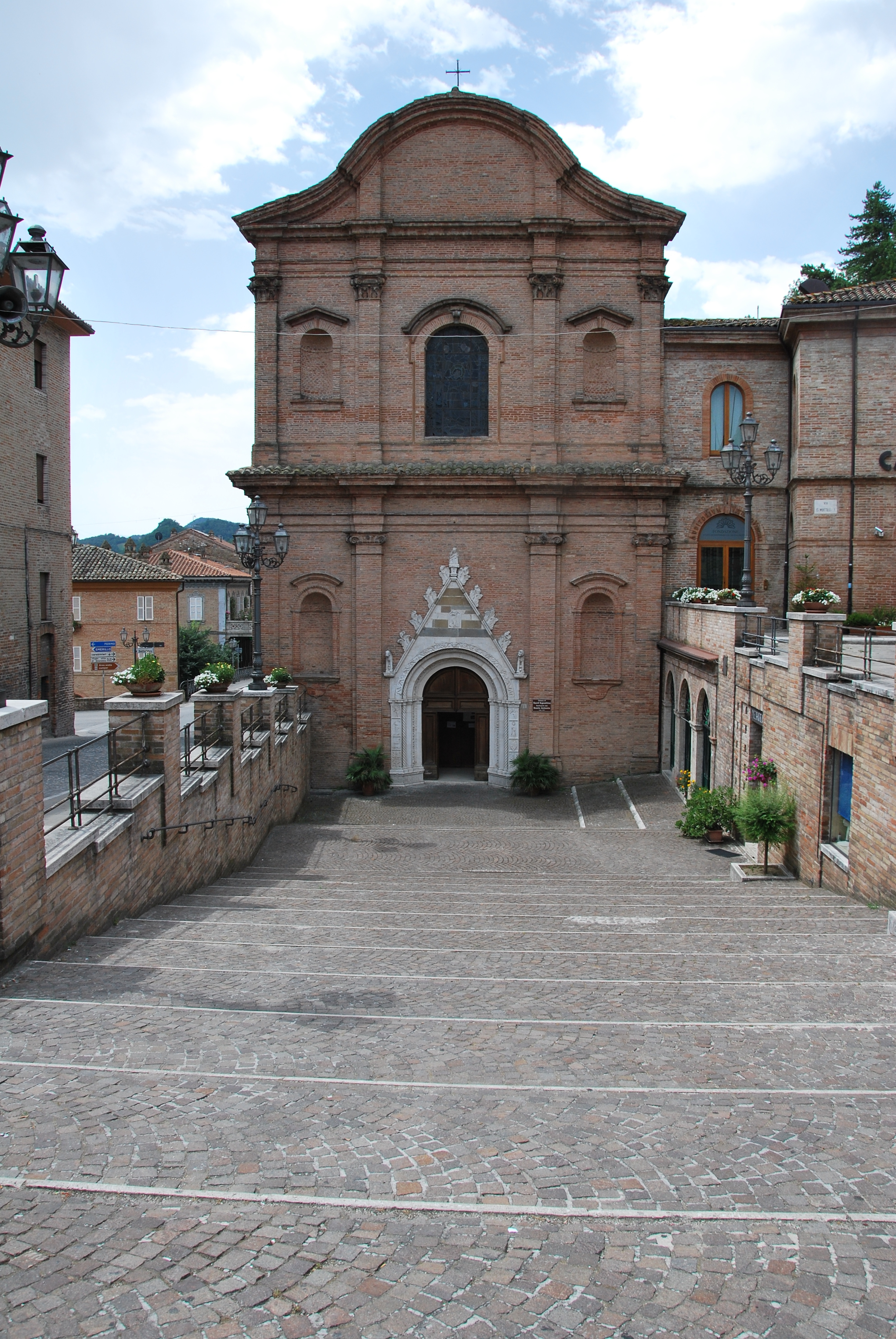 Church in Amandola